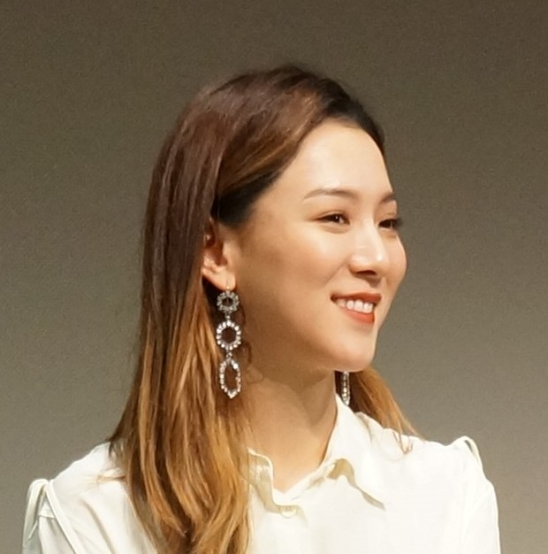 On July 27, 2018, at the Freer Sackler Gallery in Washington DC, Venus Wong at a panel discussion about the Hong Kong film 今晚打喪屍 Zombiology: Enjoy Yourself Tonight (2017).